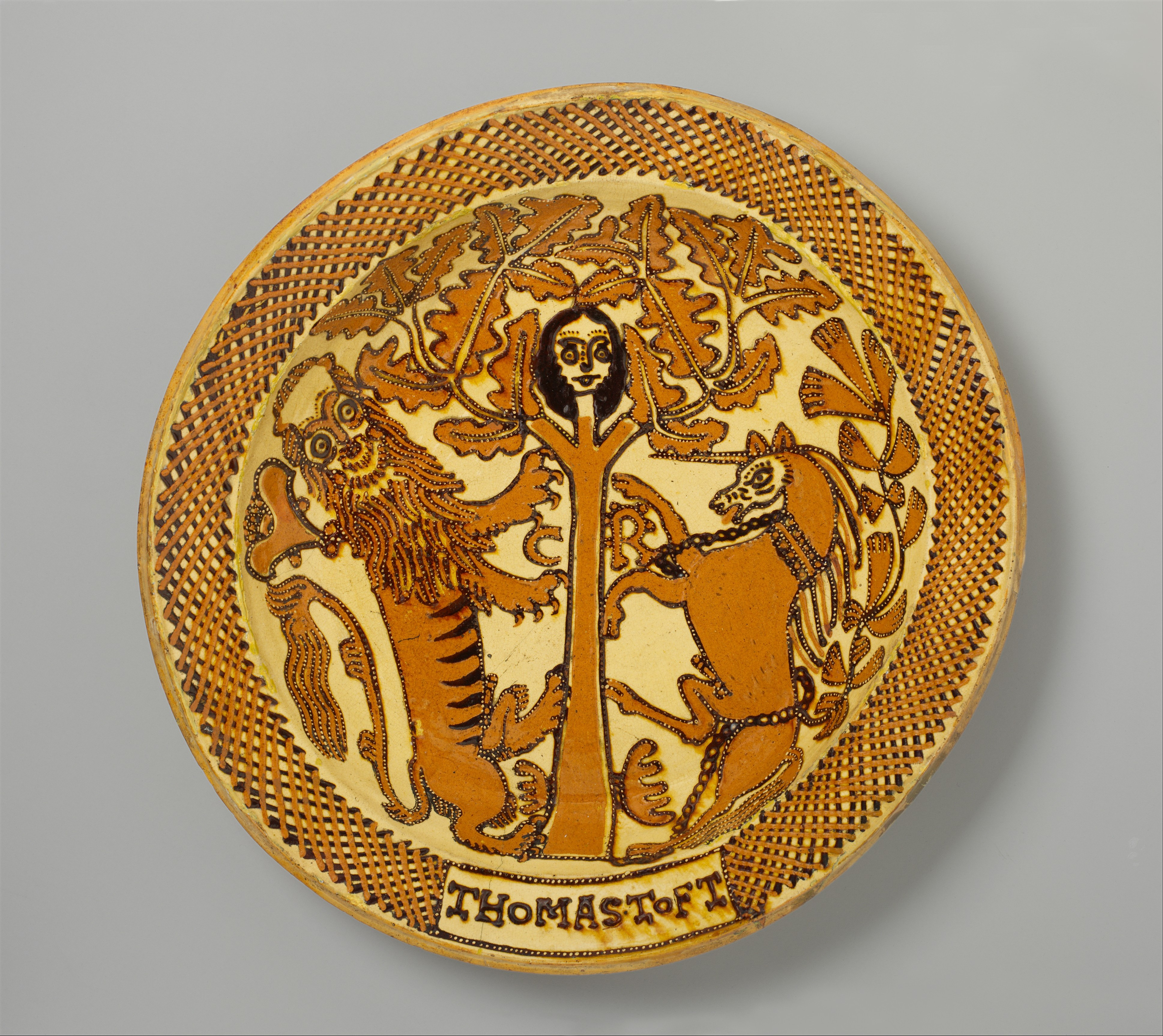 British, Staffordshire; Charger; Ceramics-Pottery